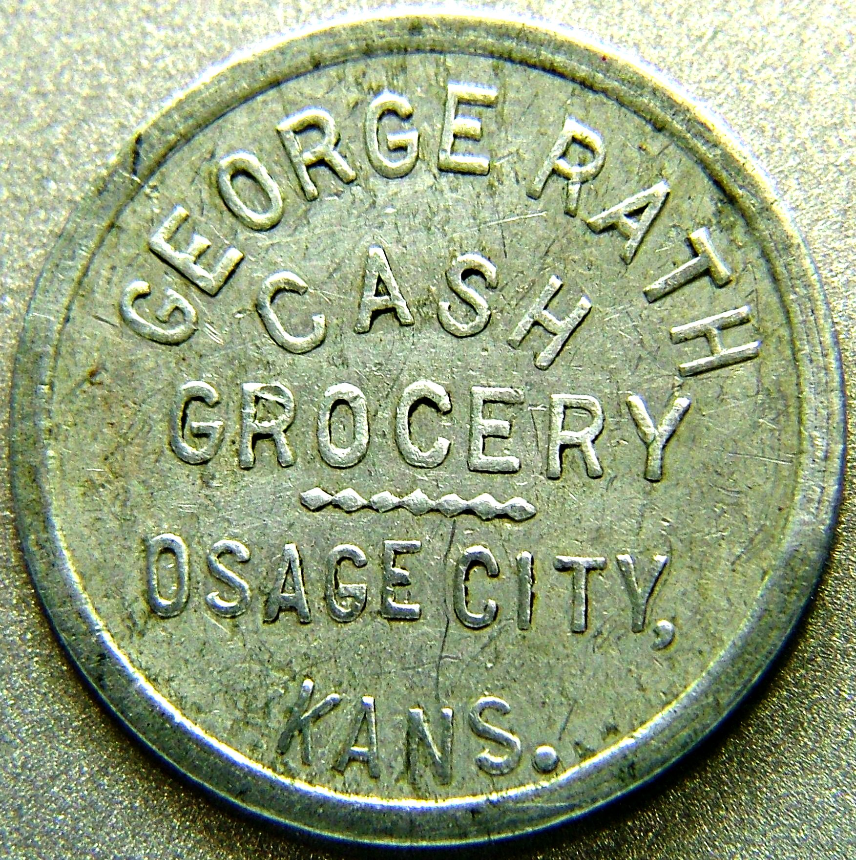 Aluminum trade token of George Rath of Osage City, Kansas. Photo by Jerry Adams